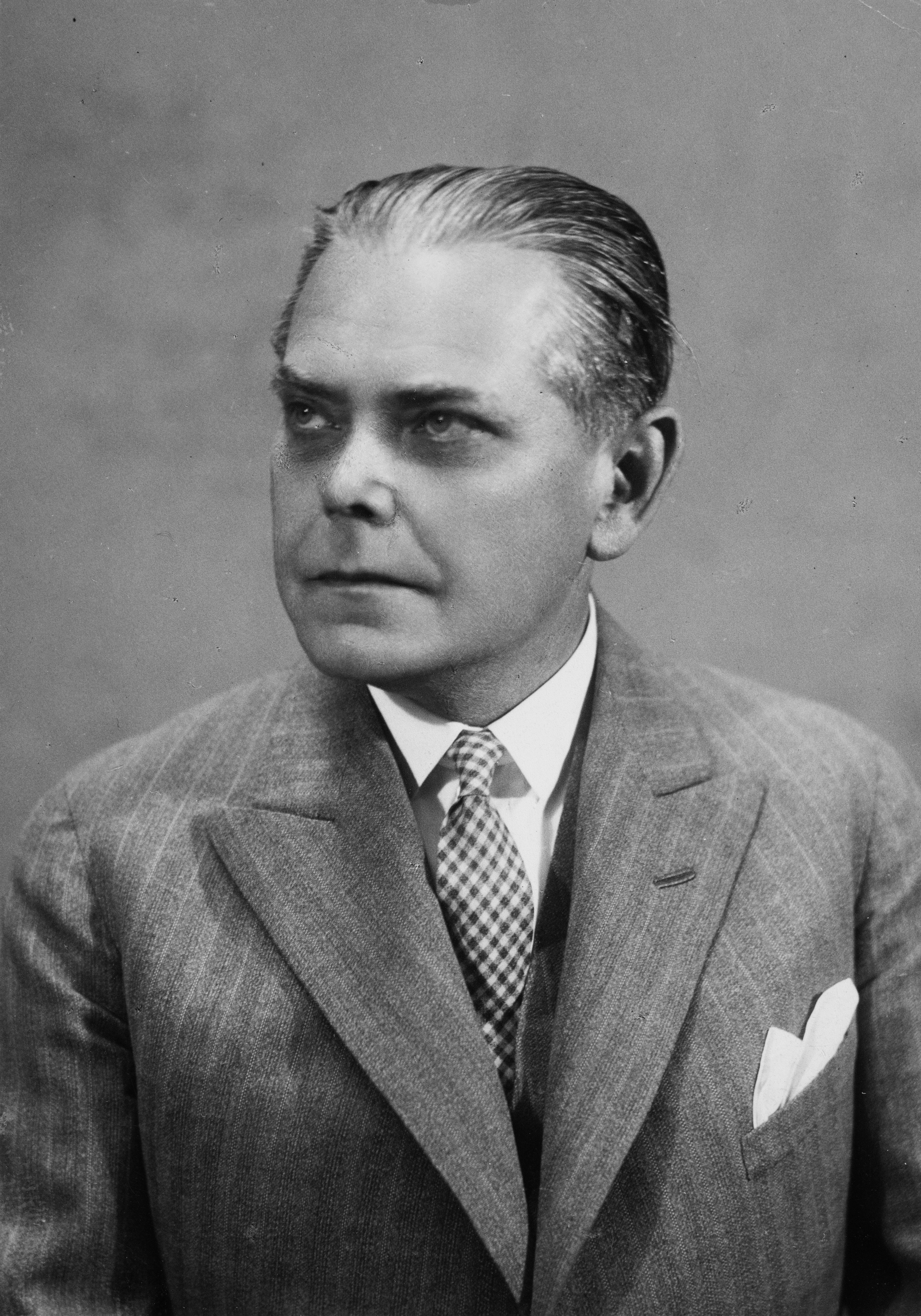 Portrait photograph of the Danish stage director Svend Gade (1877–1952).